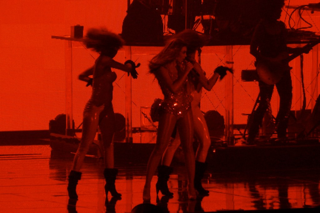 Naughty Girl